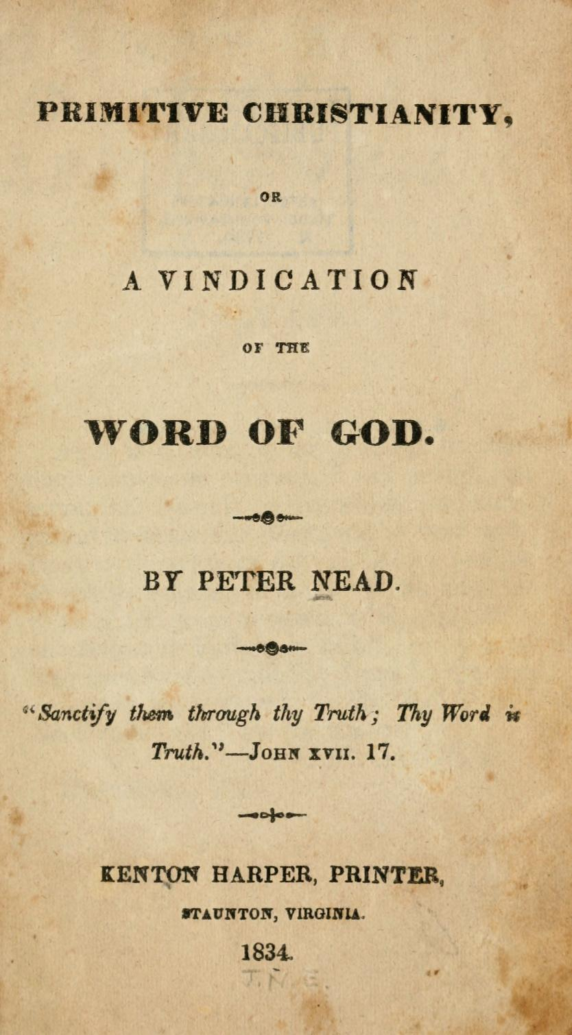 Title page of Peter Nead's "Primitive Christianity, or a Vindication of the Word of God" published in 1834.